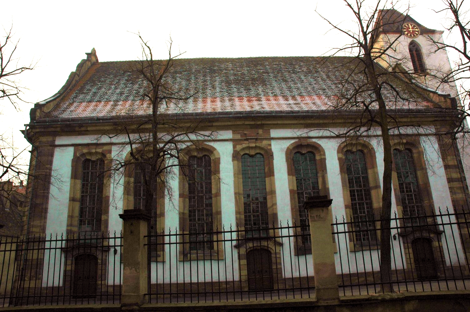 Sainte-Aurélie's Church, Strasbourg (France)